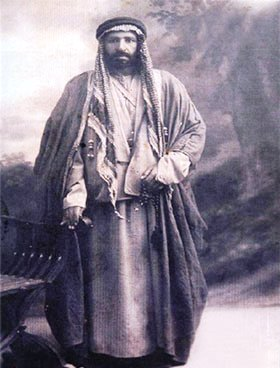 Ibnmhid